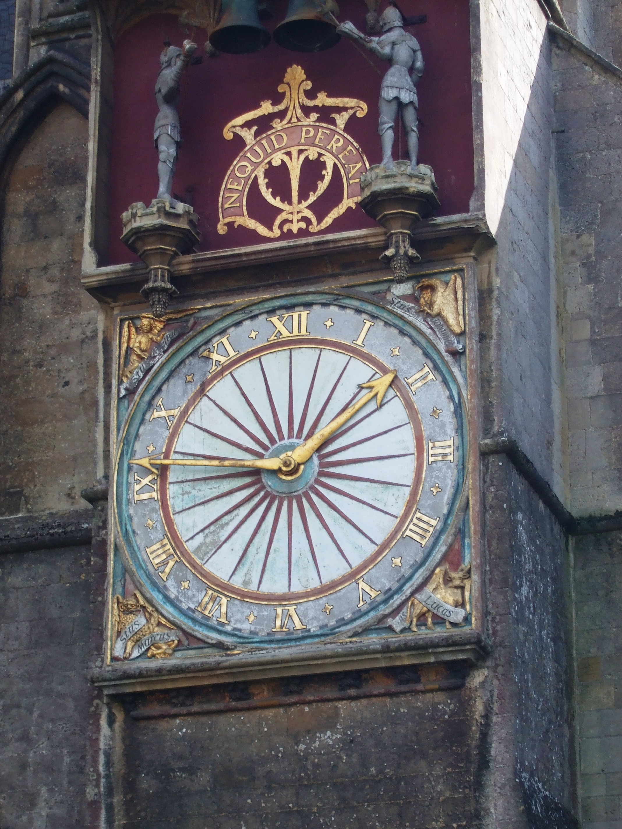 Wells Clock (exterior) at Wells Cathedral